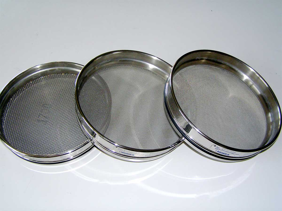 Laborsiebe, Laboratory sieves; 1700 µm, 500 µm, 250 µm (from left)